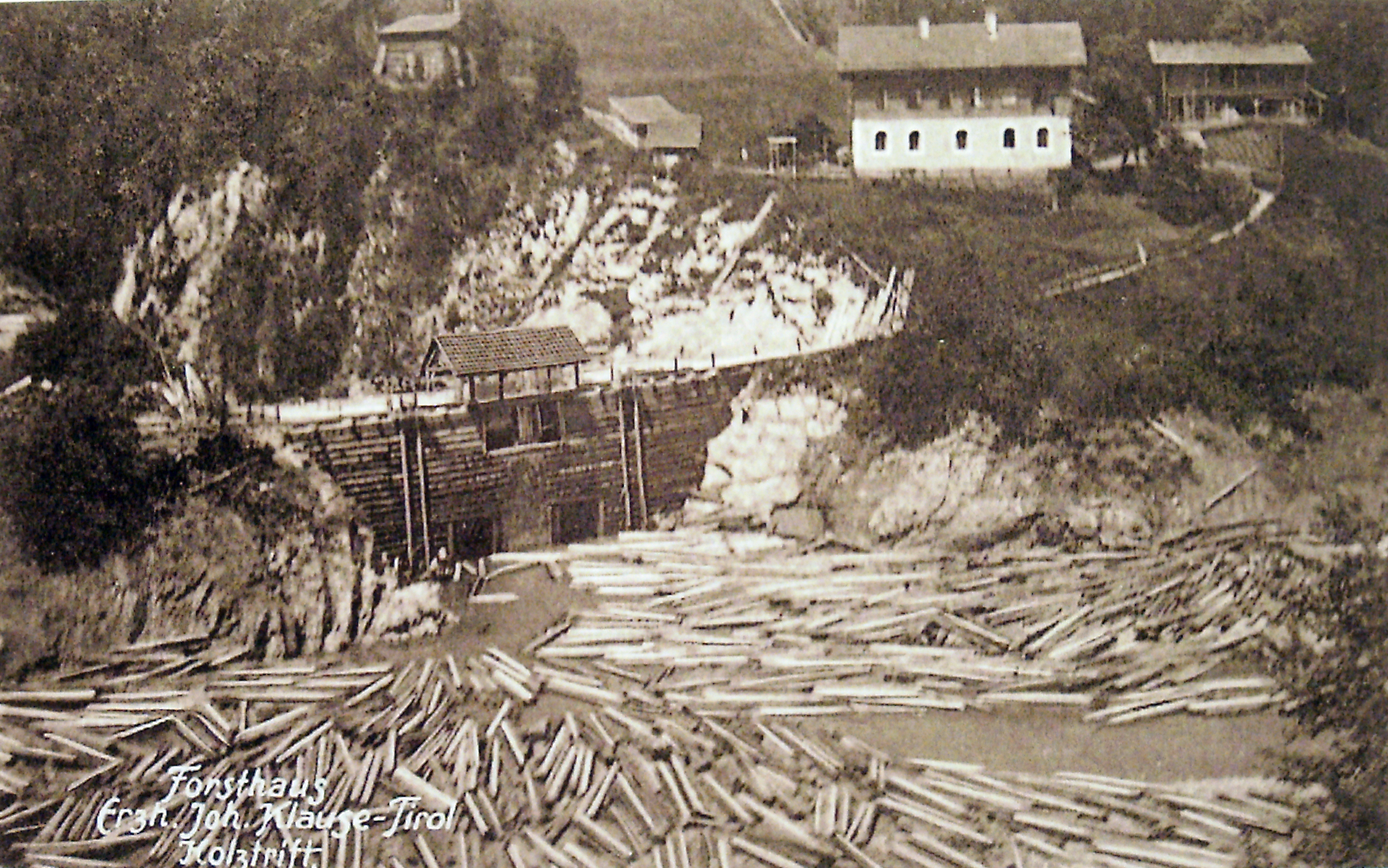 Erzherzog-Johann-Klause